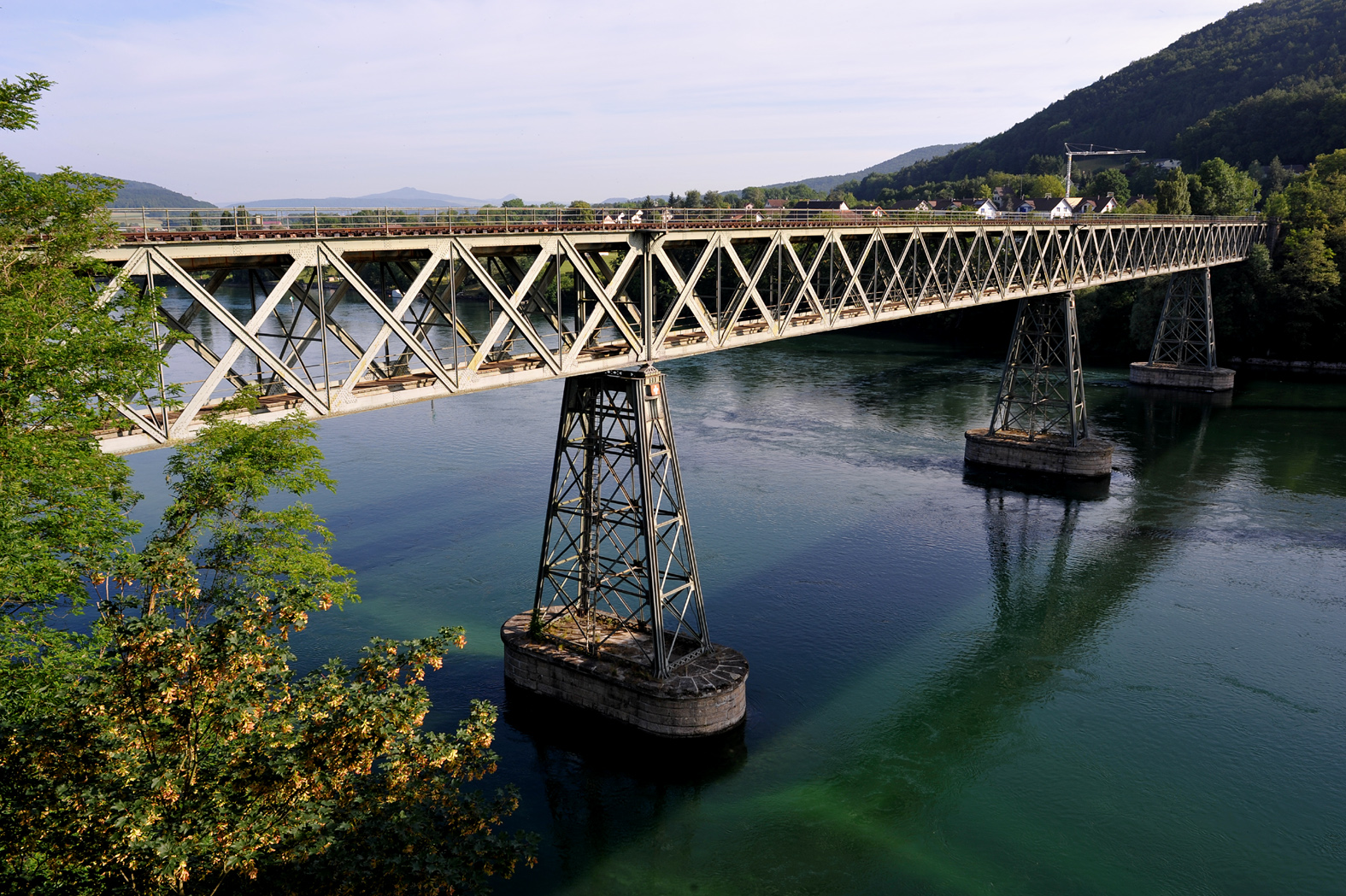 Railway bridge over river Rhine near Hemishofen, view from south; Schaffhausen and Thurgau, Switzerland.